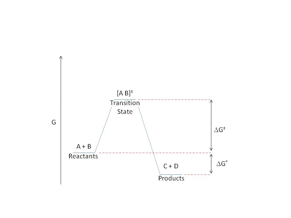 Depiction of Transition State